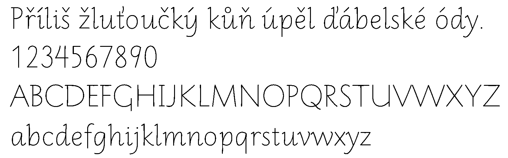 Comenia Script typeface specimen